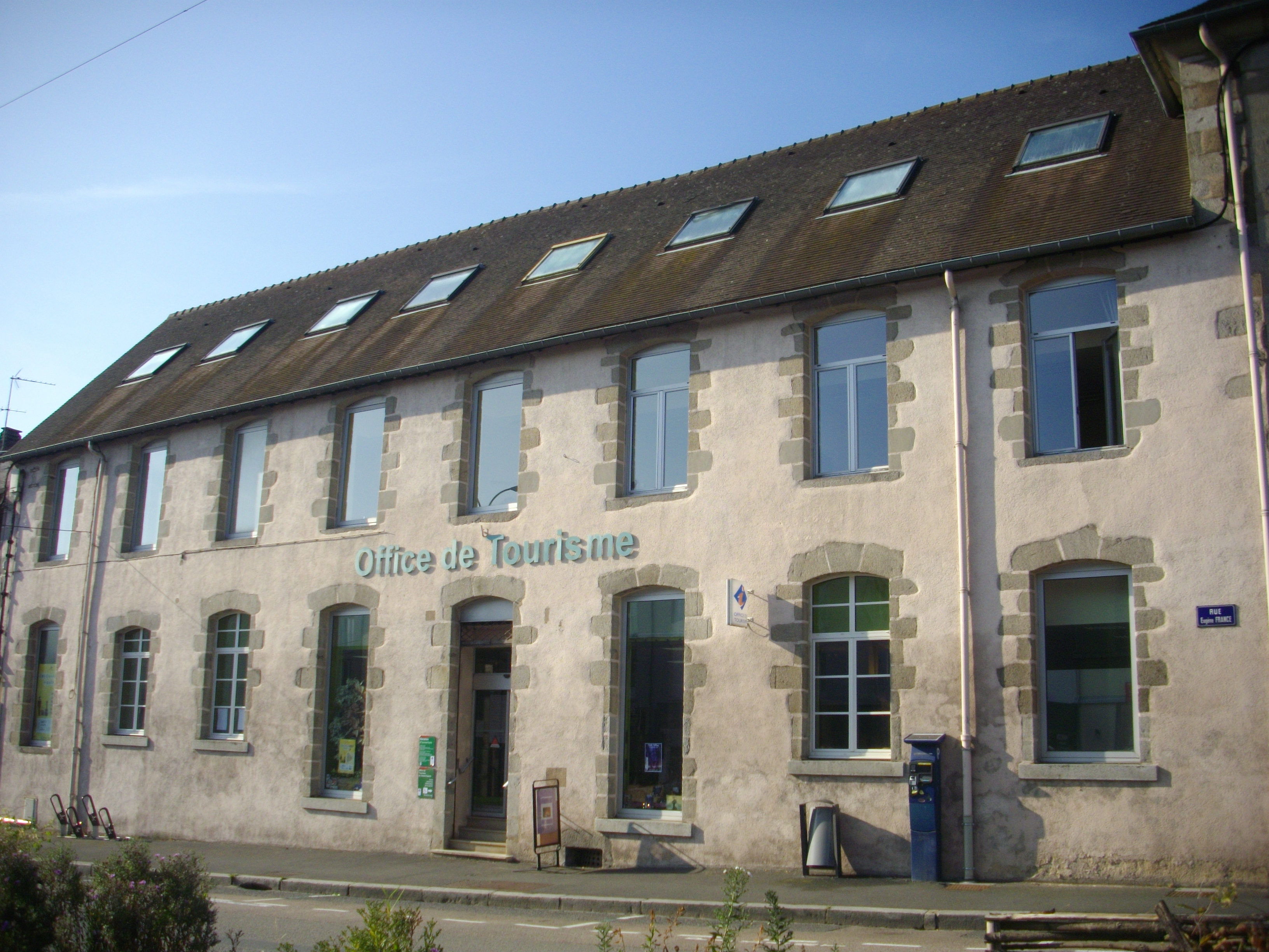 Tourist information centre of Guéret (Creuse, France)